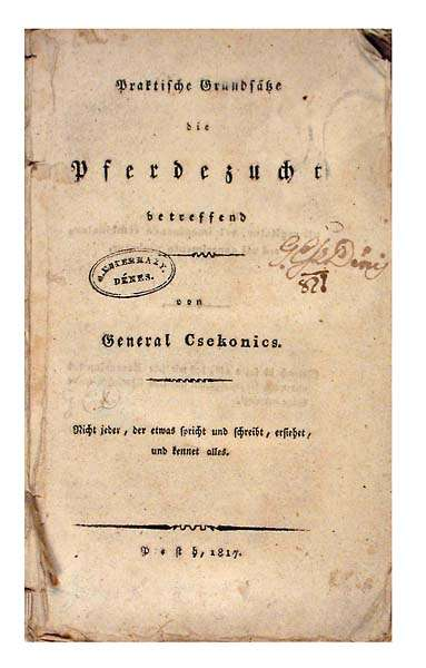 Cover page